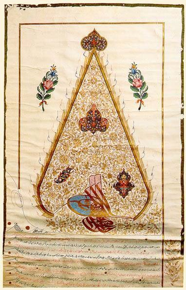 Berat of Gregory of Strumitsa 1818